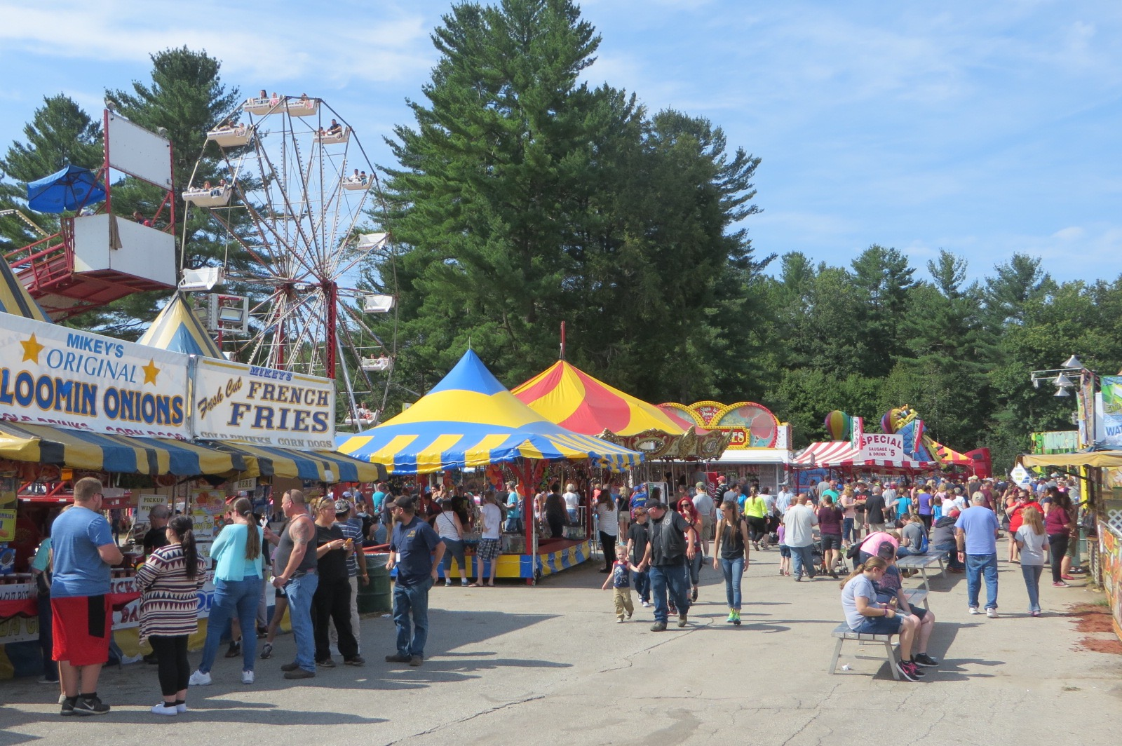 Hopkinton State Fair midway, Hopkinton, New Hampshire